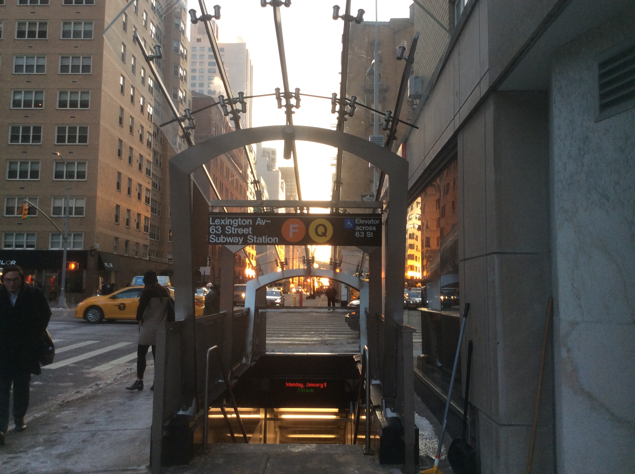 New Third Avenue entrance to the Lexington Avenue - 63rd Street station as seen in January 2017